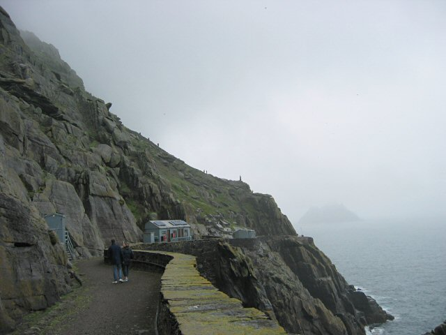 Lighthouse Road, Skellig Michael This road runs along the south-east edge of the island, from the New Lighthouse on the southern tip to the East Landing. Little Skellig can be seen in the distance. There is a useful map of the island on